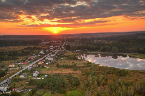 Panorama Wołów district